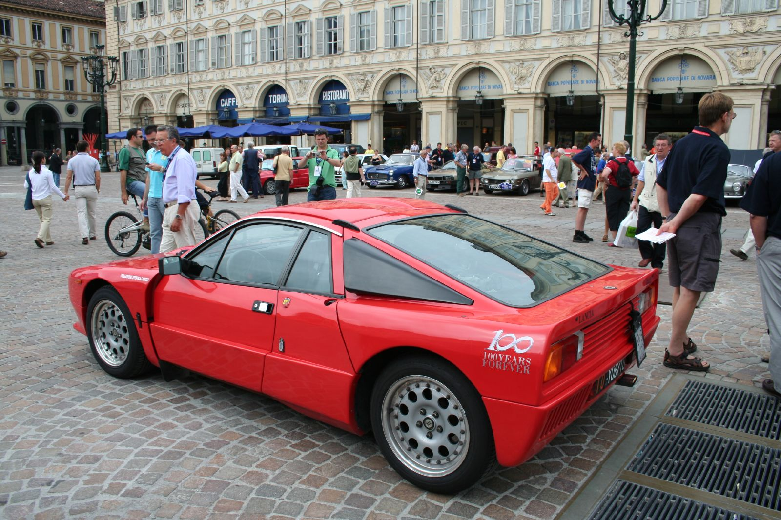 Lancia Rally 037 Stradale at the Lancia centenary celebrations in Turin in 2006.